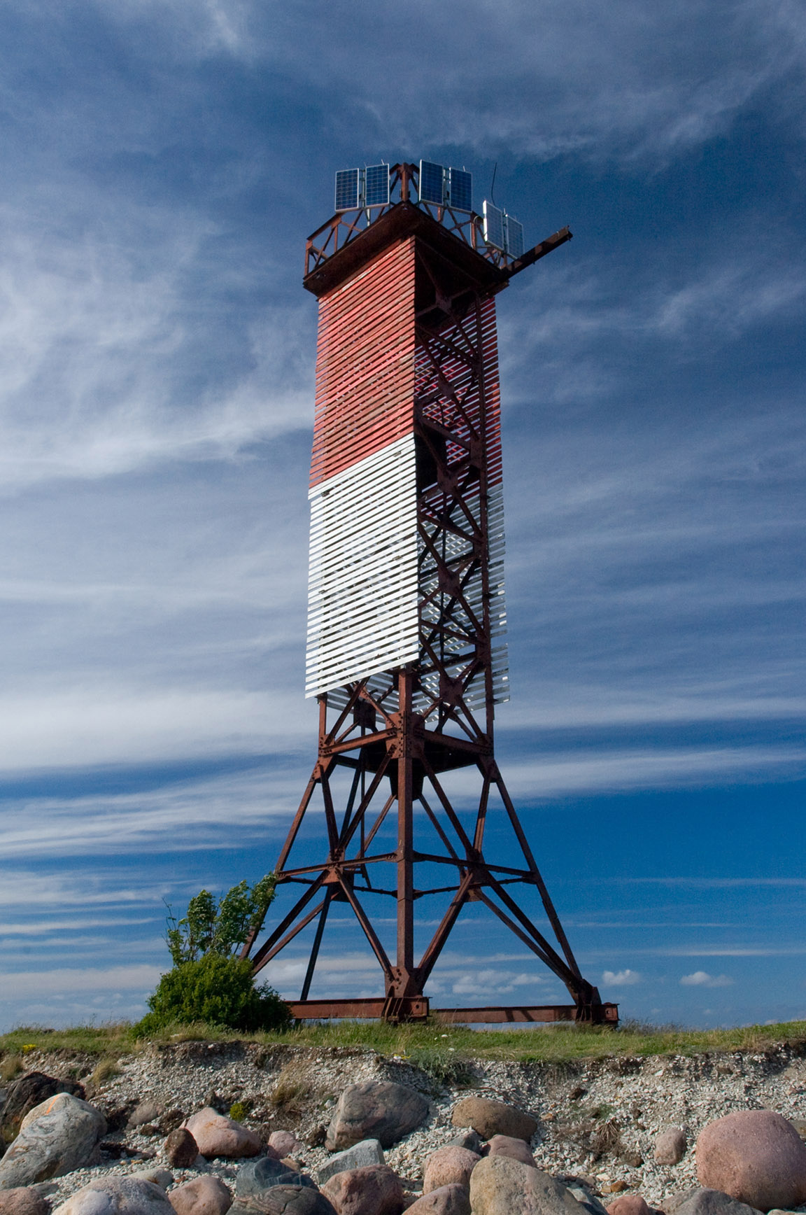 Põõsaspea light beacon